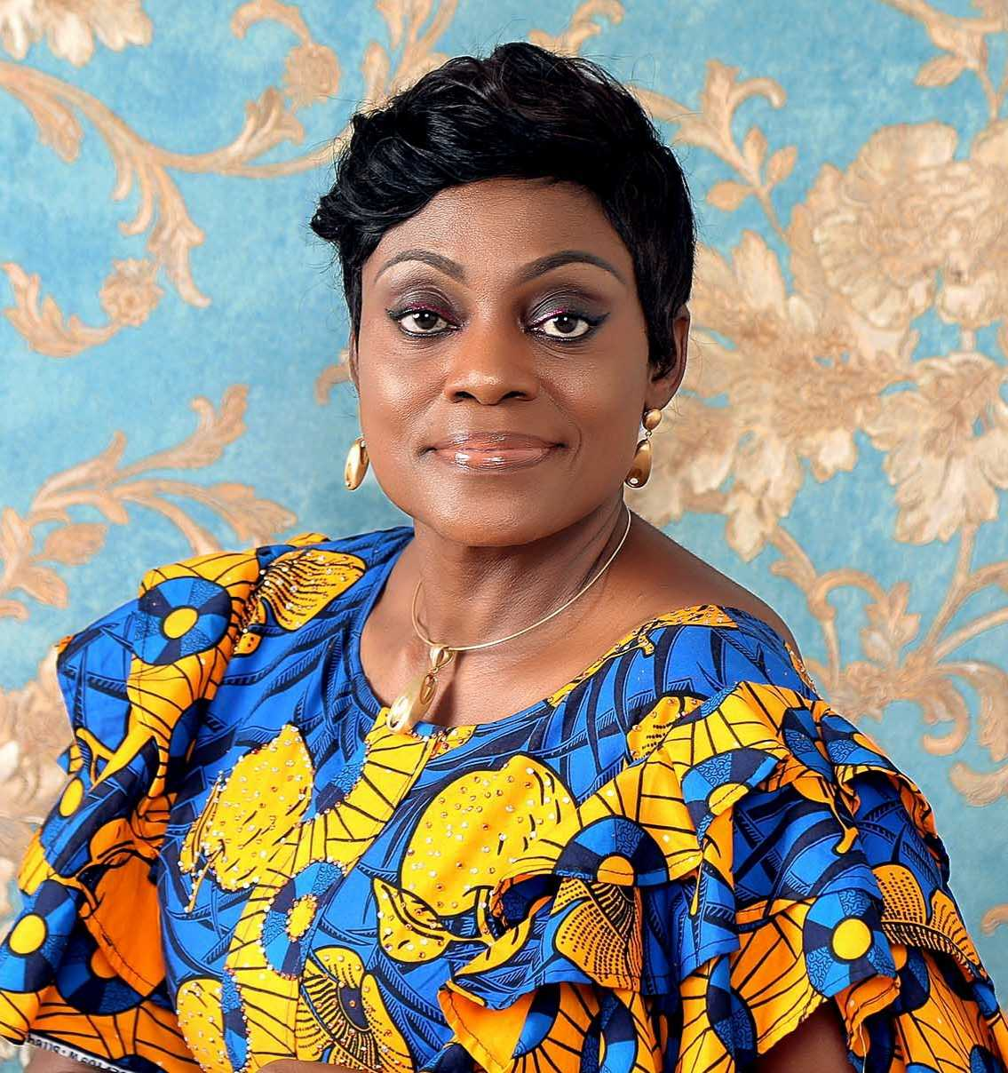 Picture of Mrs. Bunmi Dipo Salami